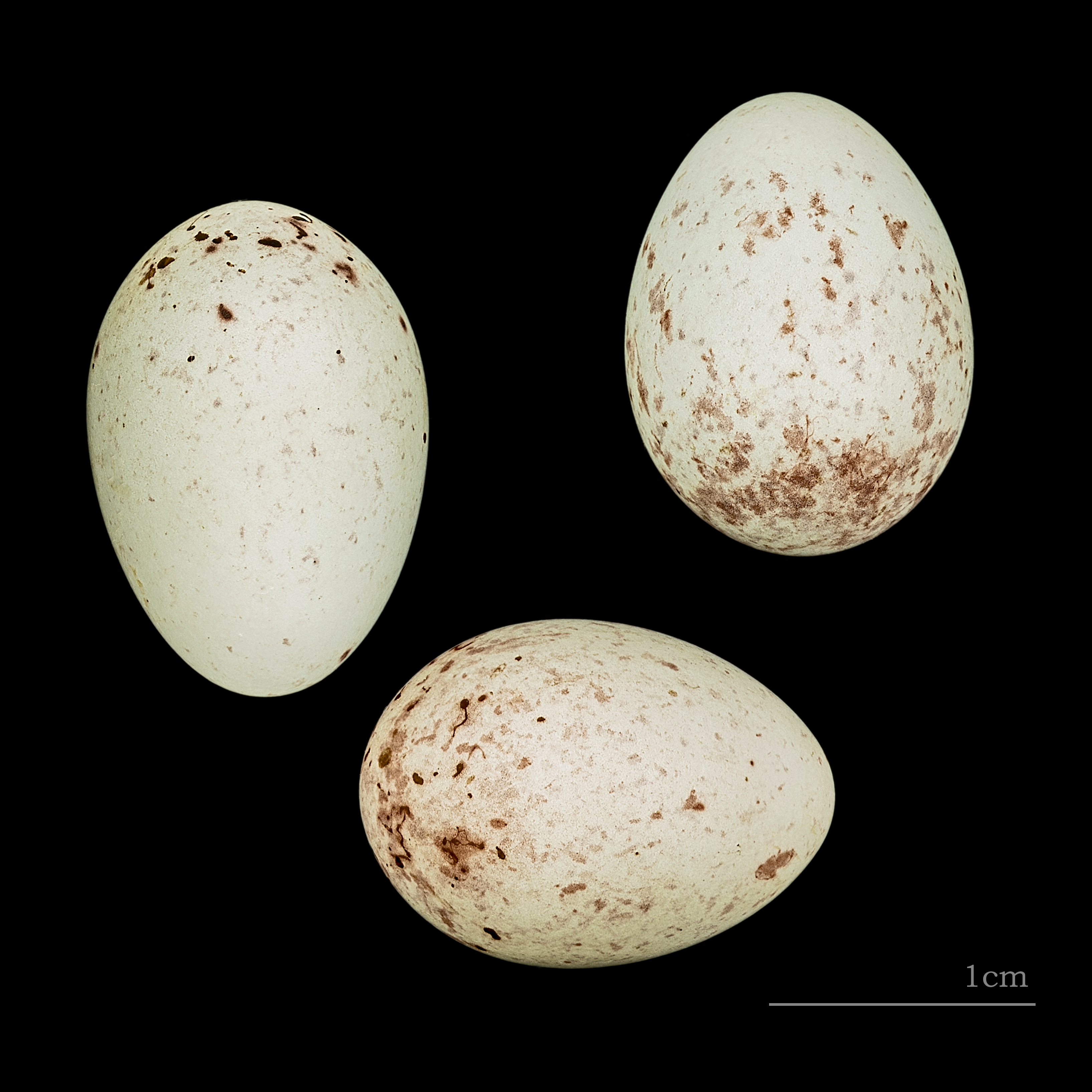 Egg of Atlantic Canary. Collection of René de Naurois / Jacques Perrin de Brichambaut